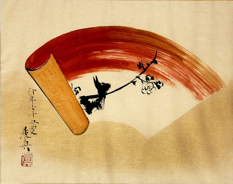 Lacquer on paper painting by Shibata Zeshin from album of 18 urushi-e